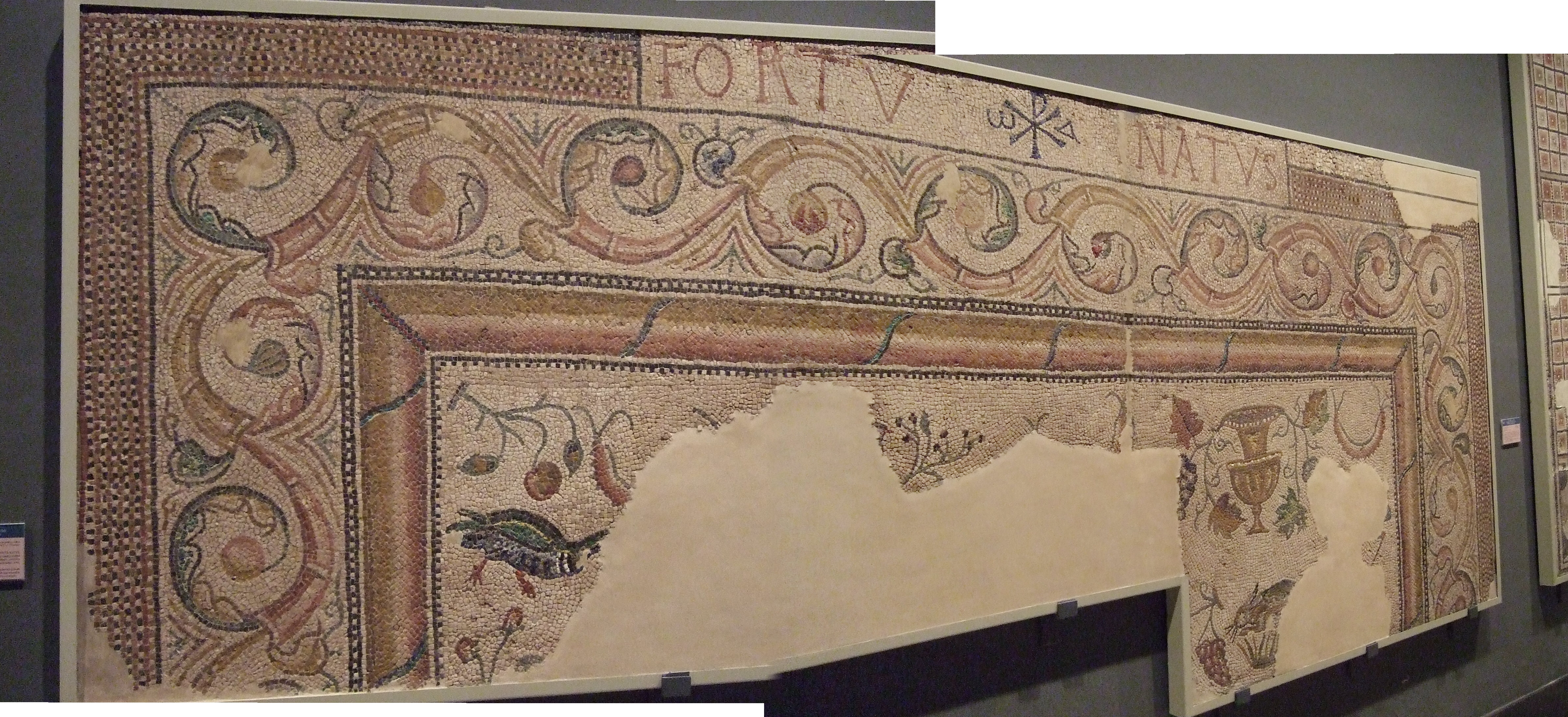 Fortv + Natvs (4th c. AC). Villa Fortunatus. Mosaic.